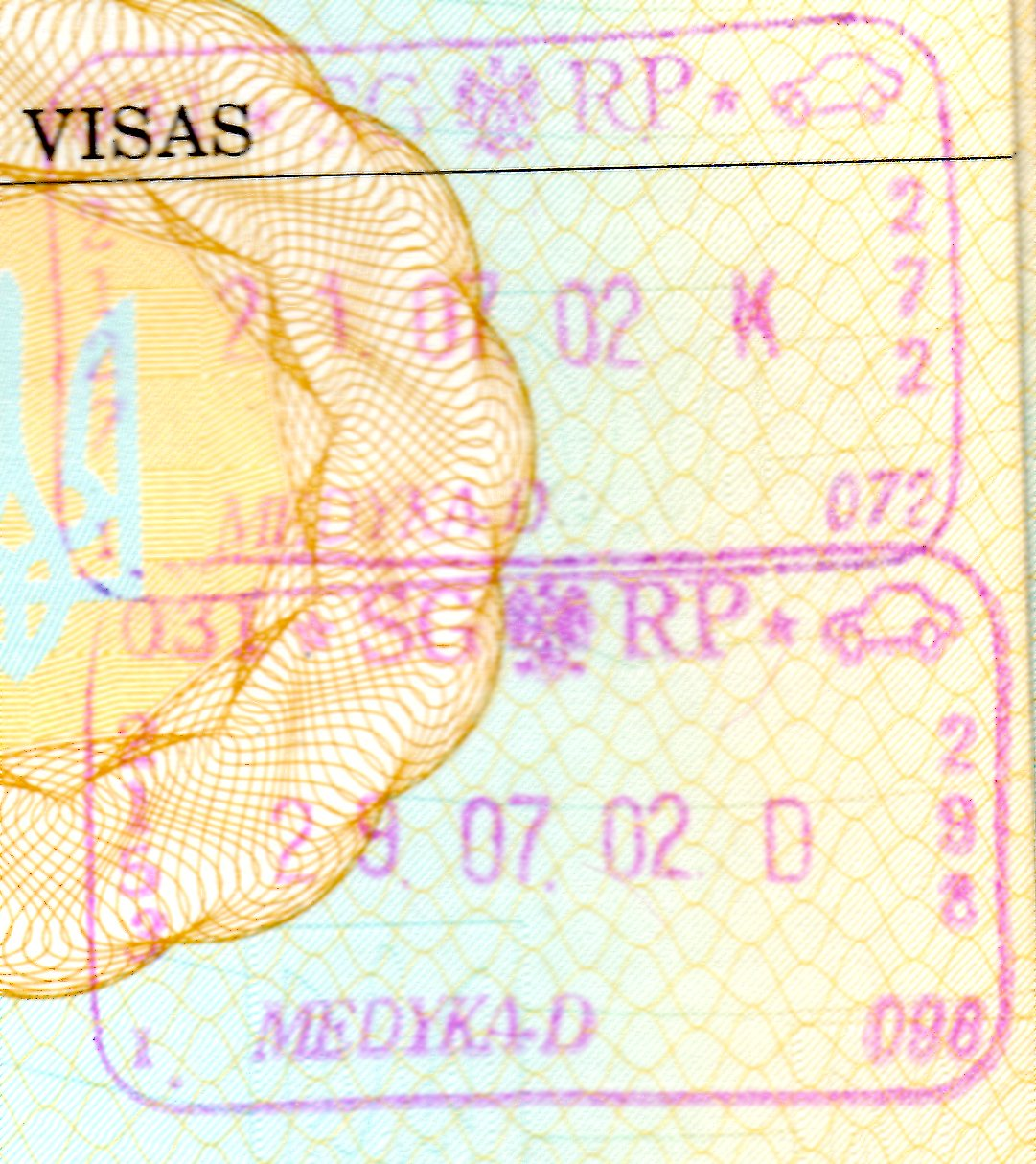 Medyka border stamp (2002)